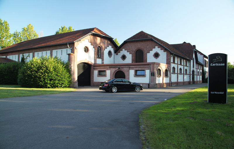 Gut Wiesenhof, headquarters of German car tuning manufacturer Carlsson